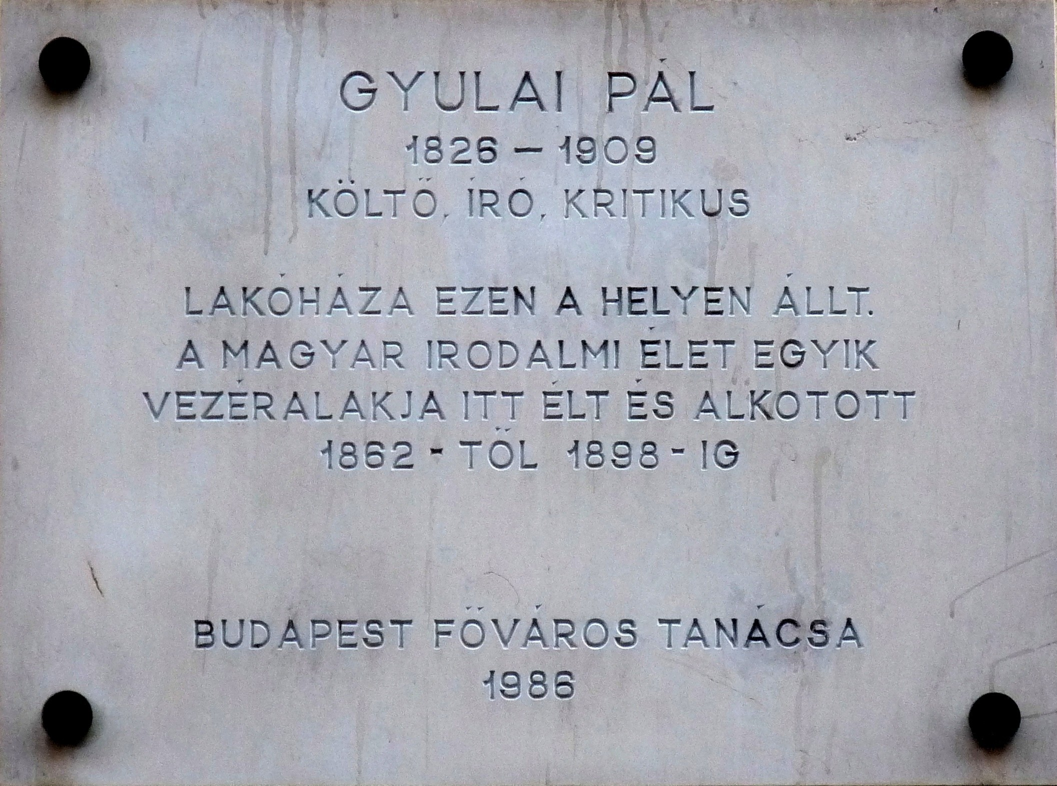 Commemorative plaque to Mr. Pál Gyulai (1826–1909) Hungarian poet, writer and art-critic, on the front of his former domicile. (Budapest, District VIII, Sándor Bródy Street Nr 13).